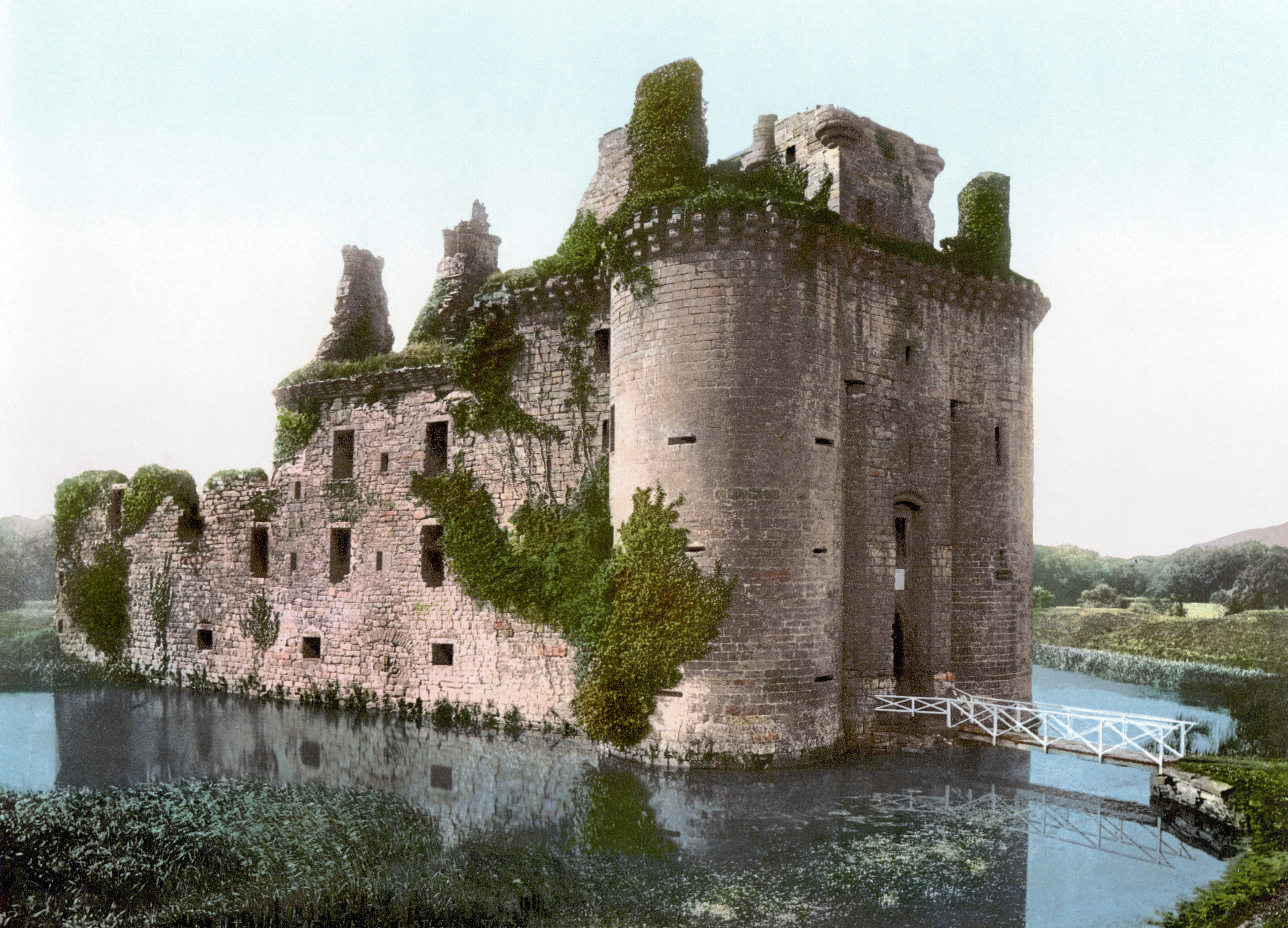 Caerlaverock Castle, c. 1890-1900